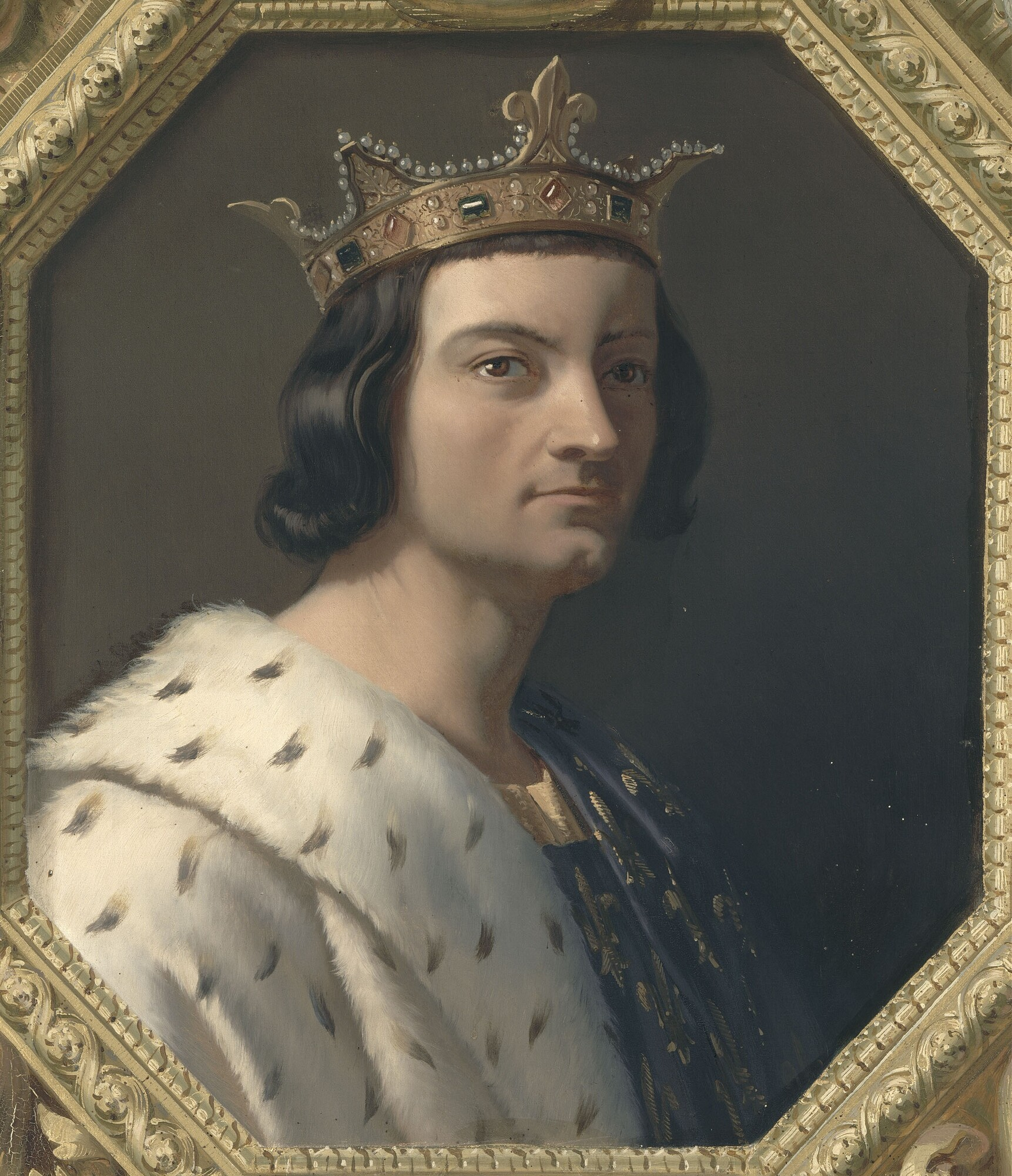 This painting belongs to the Portraits of Kings of France, a series of portraits commissioned between 1837 and 1838 by Louis Philippe I and painted by various artists for the Musée historique de Versailles.